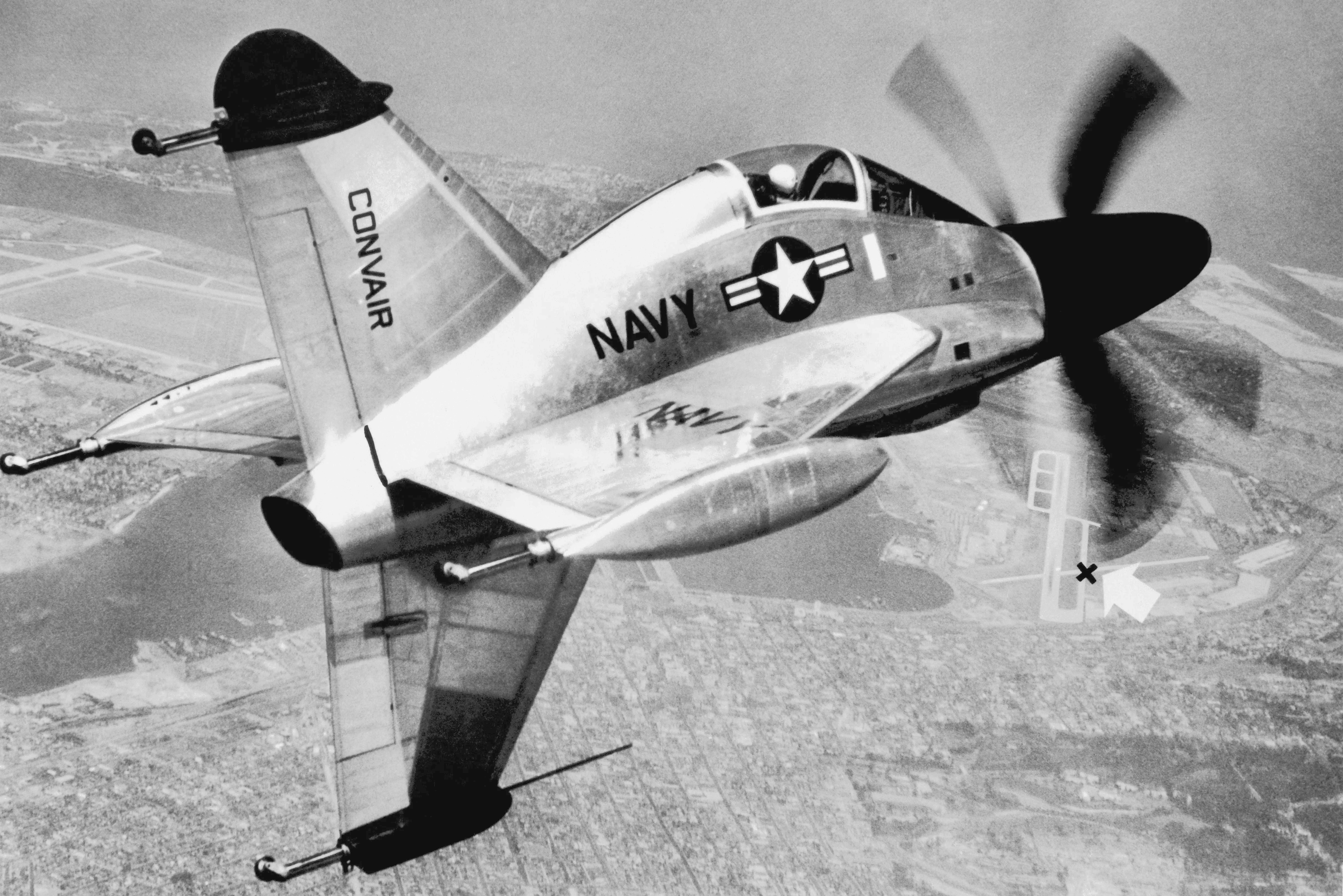 The Convair XFY-1 Pogo VTOL experimental plane in flight over San Diego, California (USA), ca. 1954.